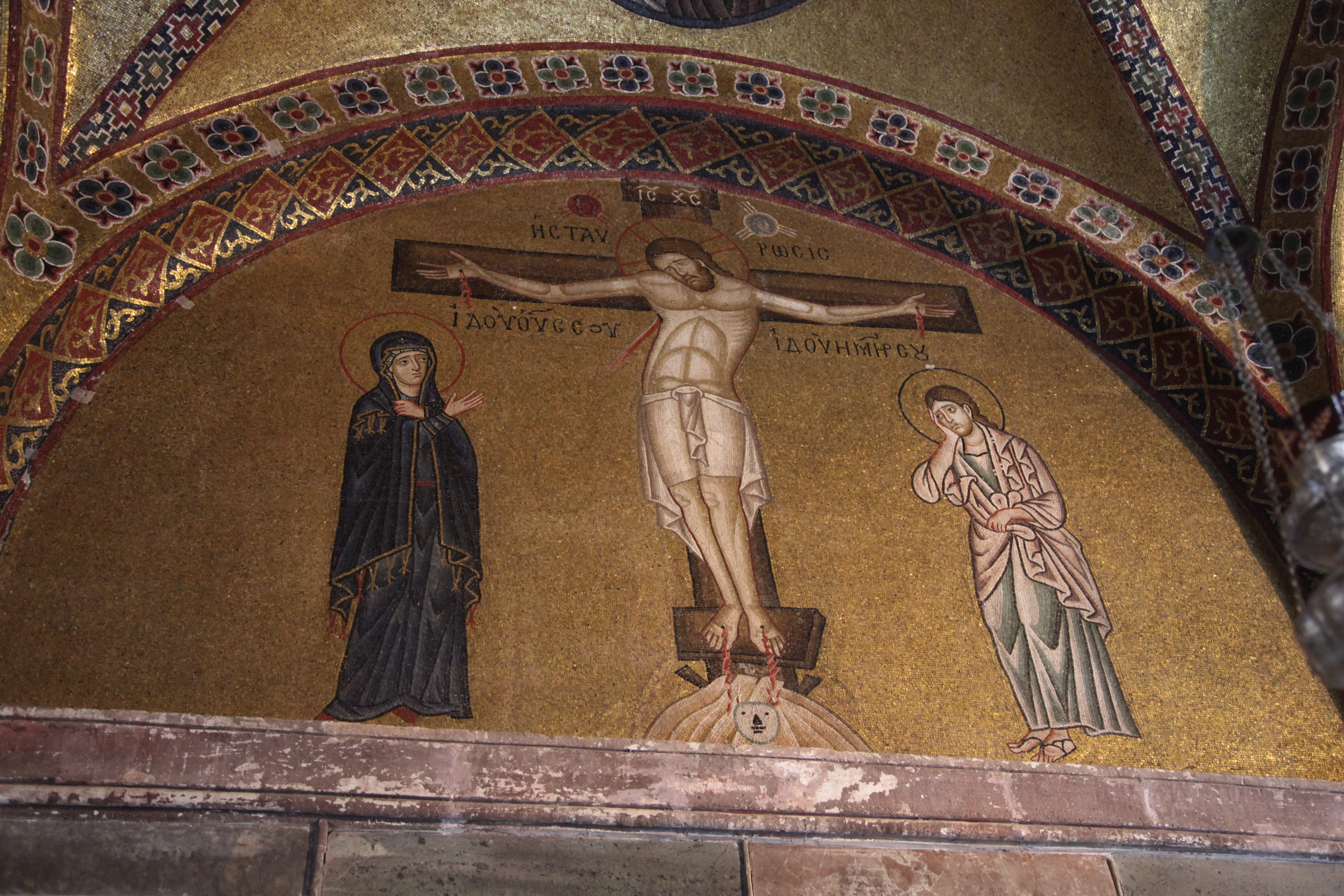 Monastery of Hosios Loukas - Google Maps - Google Earth